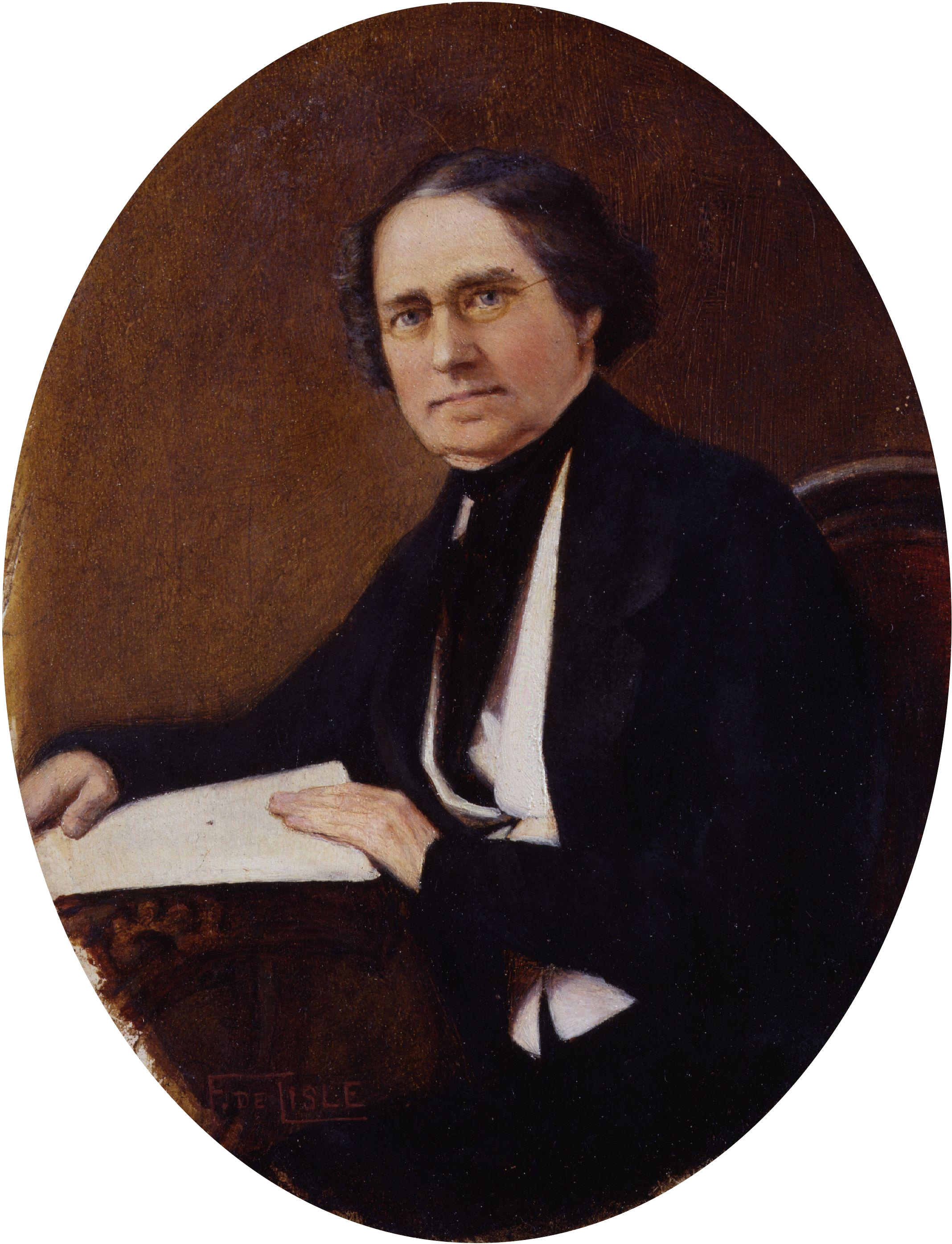 Dionysius Lardner, by Edith Fortunée Tita De Lisle (died 1910), given to the National Portrait Gallery, London in 1896.